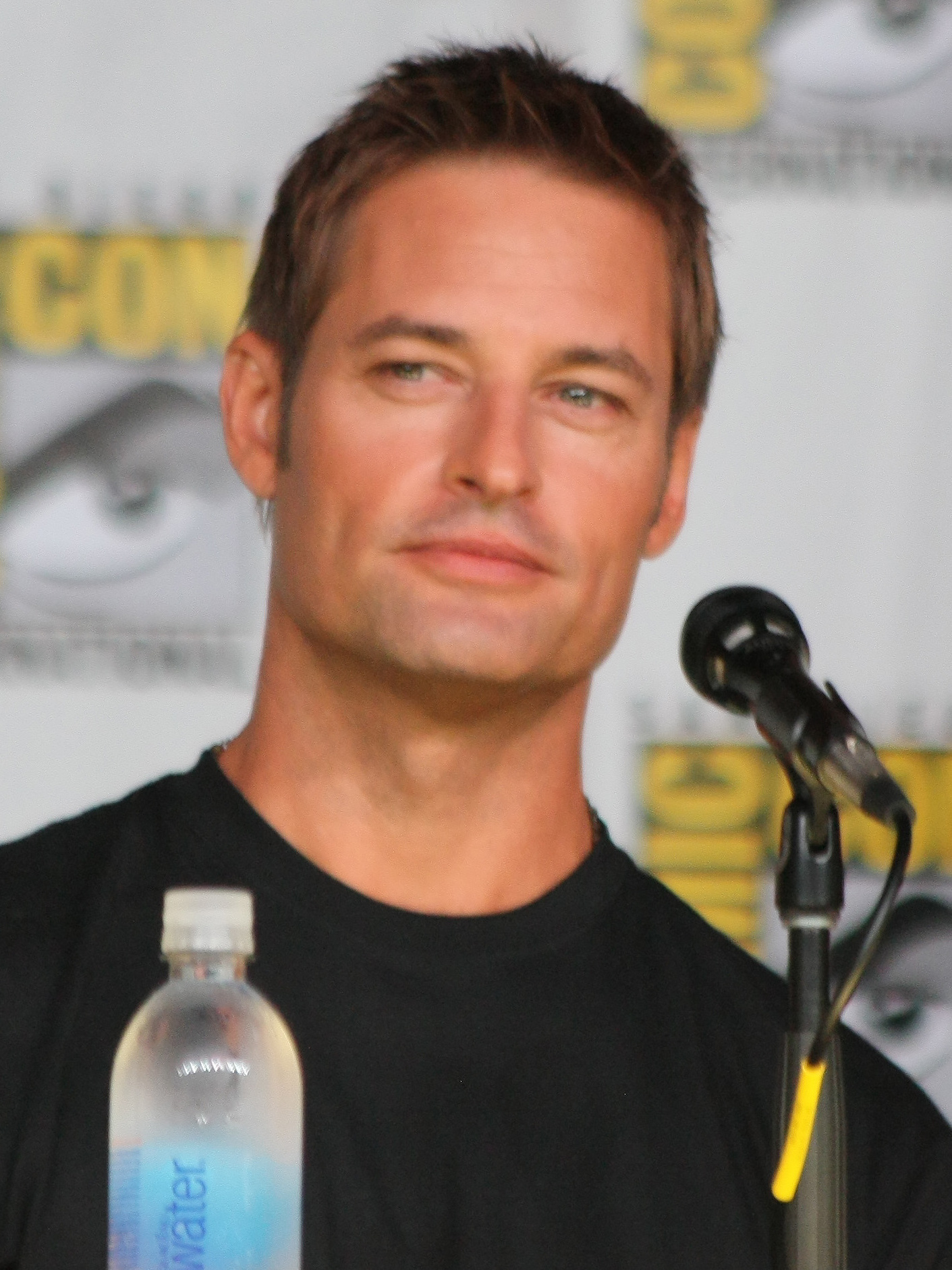 Josh Holloway (Gabriel)